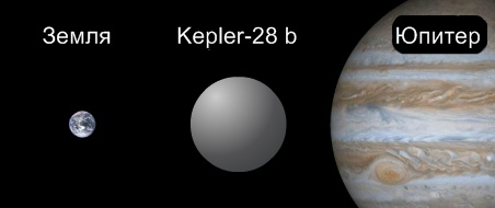 Comparative sizes of Earth, Kepler-28 b and Jupiter.